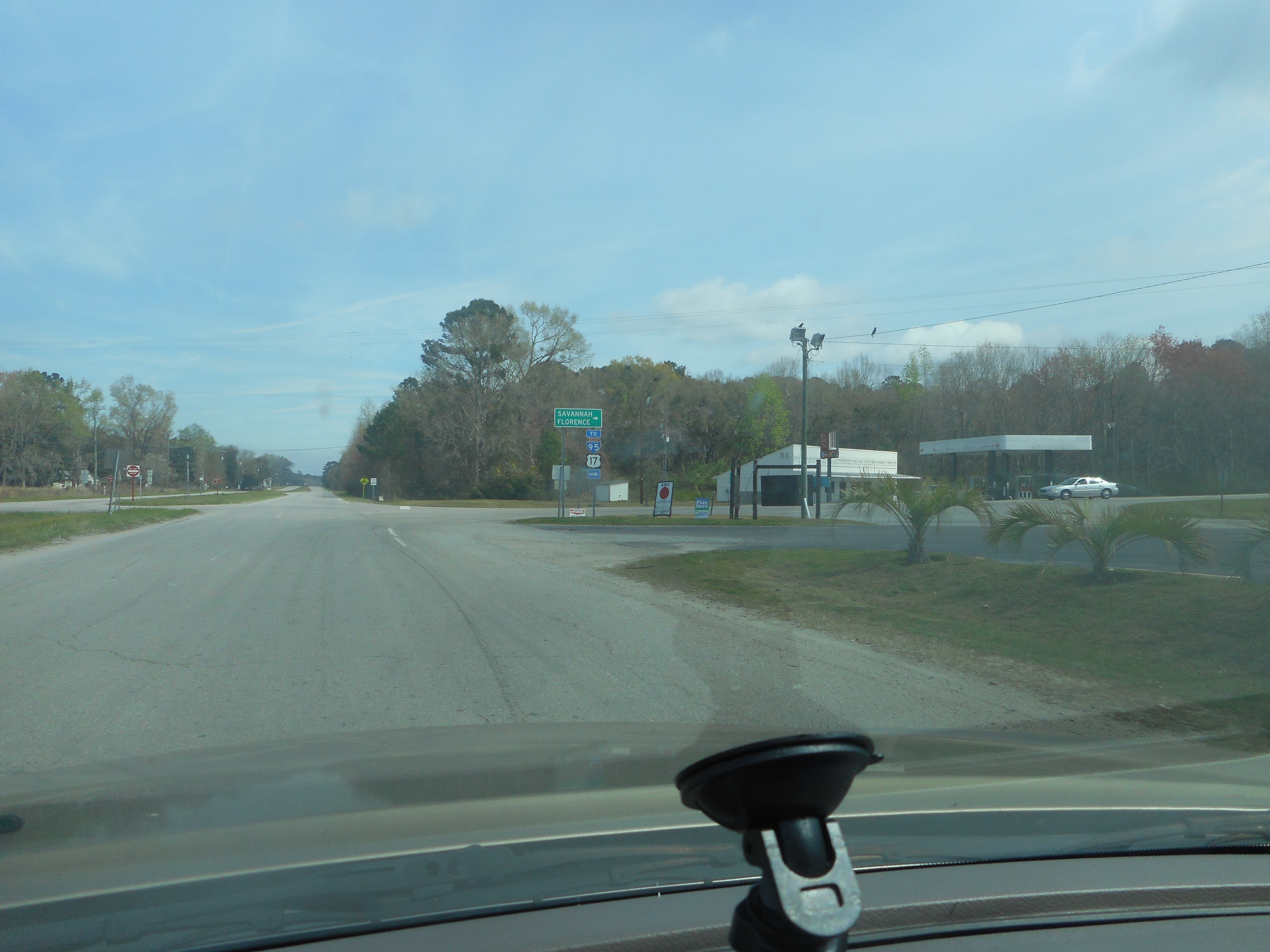 Northbound Nuna Rock Road (former US 17) at the beginning over the overlap with South Carolina Highway 462 in Coosawhatchie, South Carolina. Nuna Rock Road used to be US 17 until it was relocated to an overlap with Interstate 95 between Exit 22 in Ridgeland, and Exit 33 in Point South during the 1970's. Signs tell drivers that they can get to both of these routes by turning east onto SC 462 at Exit 28 on I-95.